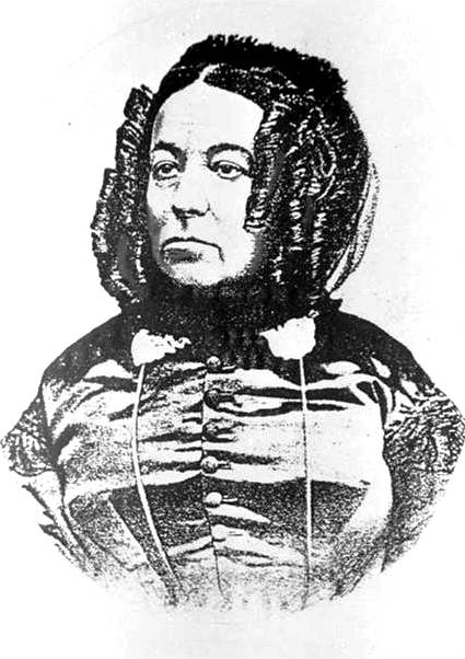 Портрет Медведниковой (1834—1899) — купичихи I гильдии, известной московской благотворительницы, жены Медведникова Ивана Логгиновича.